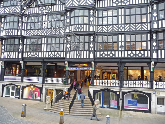 Bridge Street The west entrance to the Grosvenor Shopping Centre.